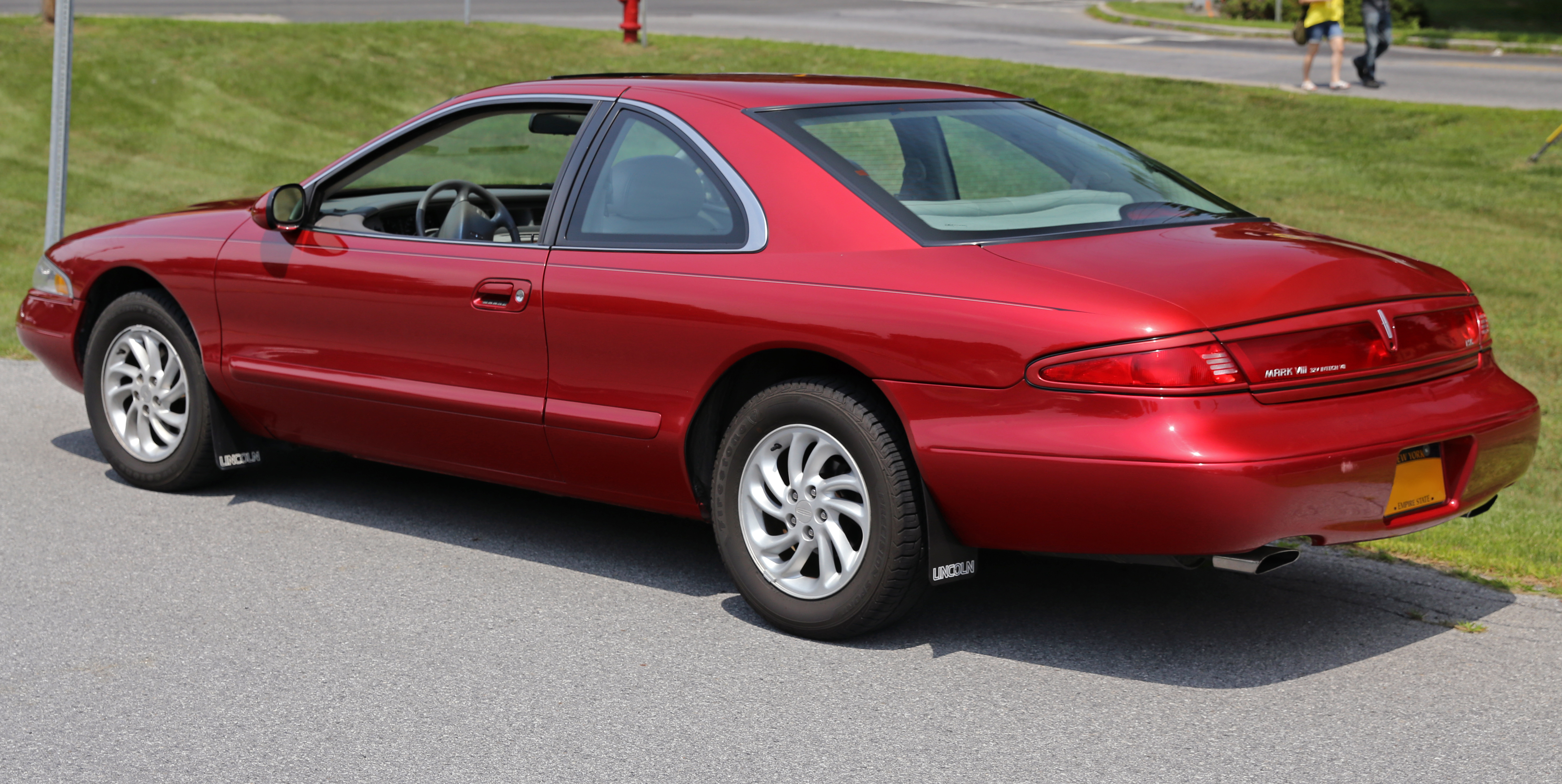 1998 Lincoln Mark VIII LSC. Not exactly a success when new, and becoming quite rare these days.